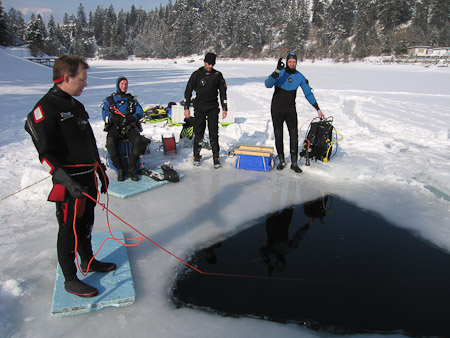 Icediving, surfaceteam